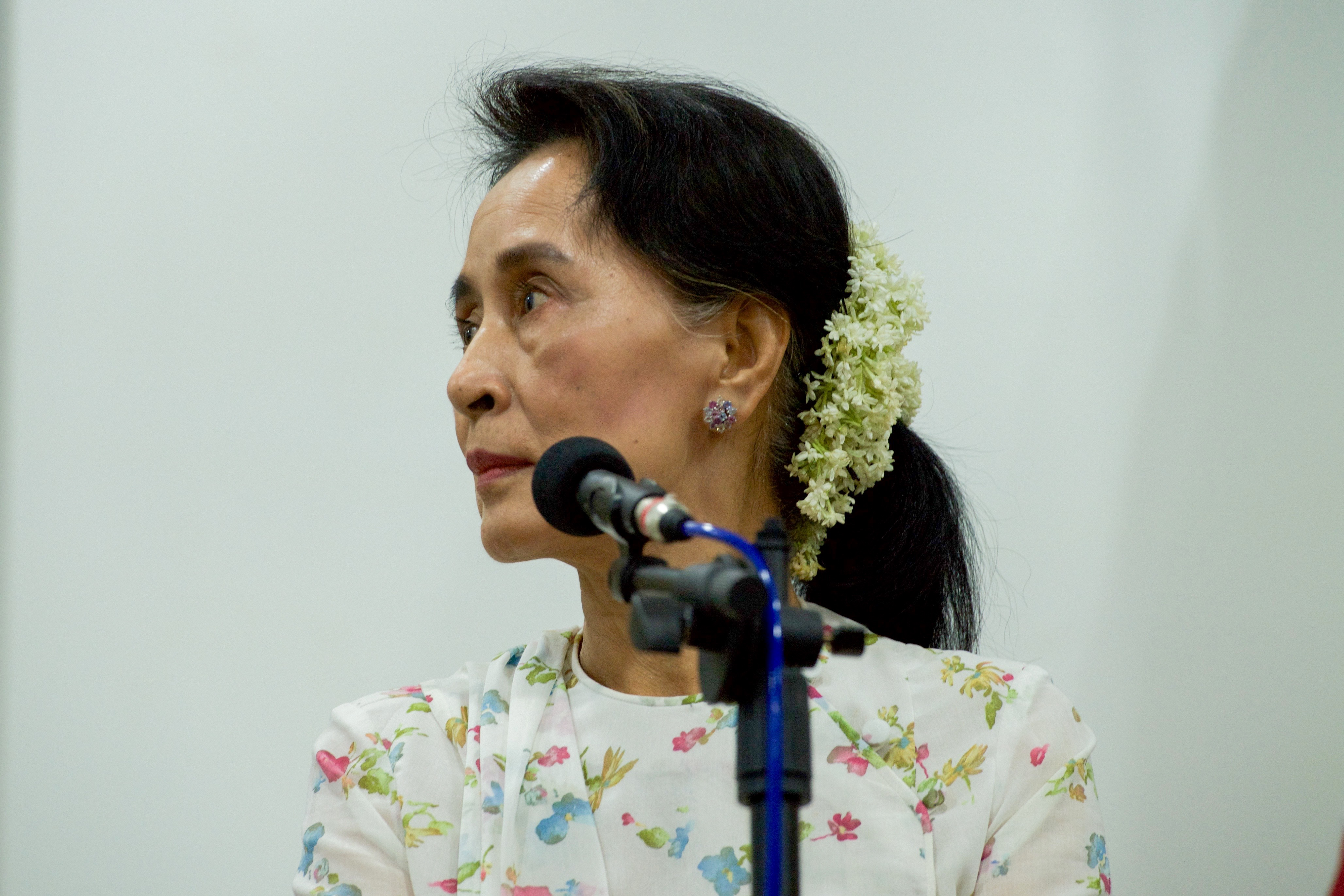 Myanmar Foreign Minister Aung San Suu Kyi listens to U.S. Secretary of State John Kerry as he addresses reporters during a news conference that followed their bilateral meeting on May 22, 2016, at the Ministry of Foreign Affairs in Naypyitaw, Myanmar. [State Department photo/ Public Domain]